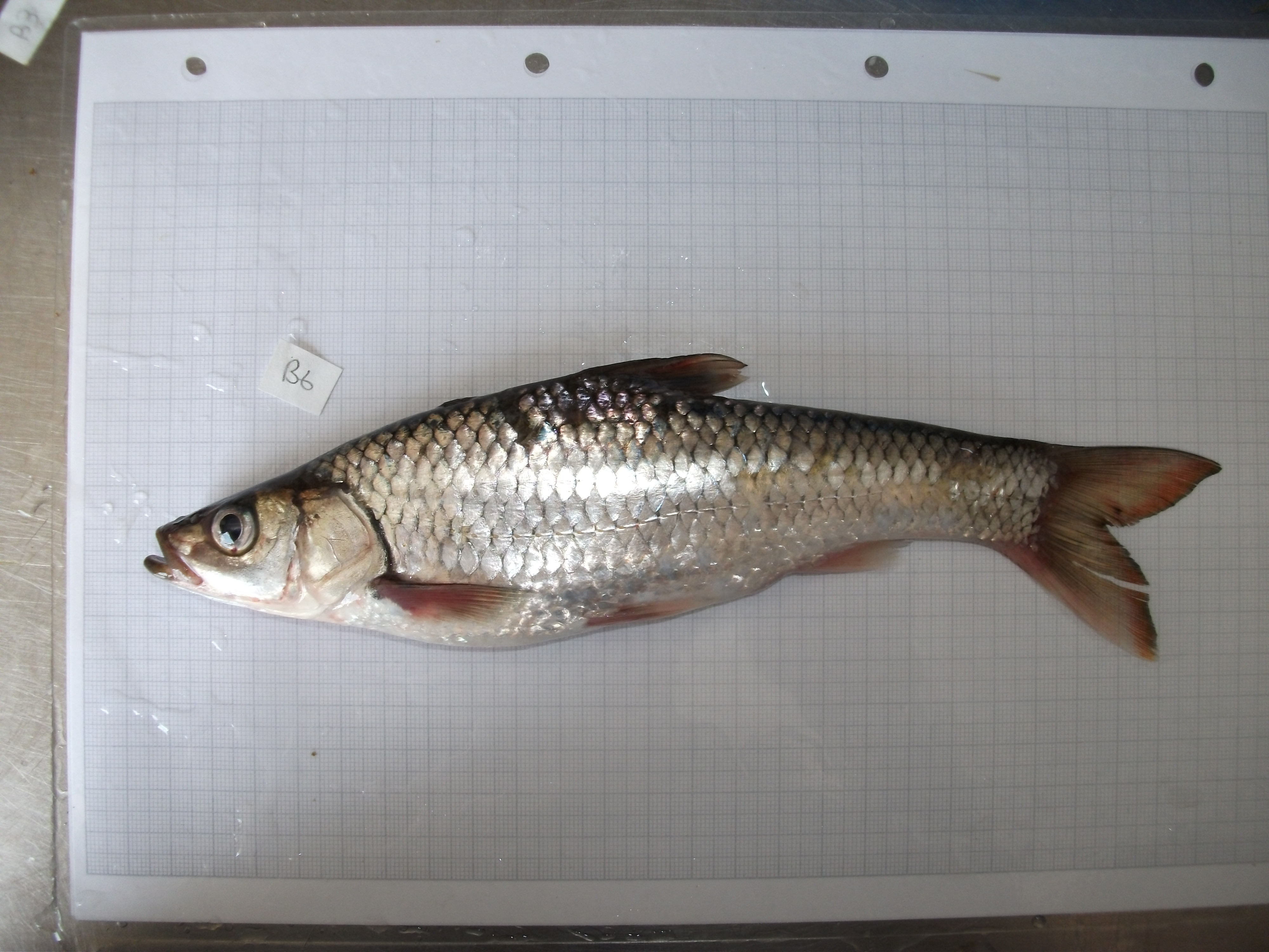 2010 Trawl catch, SE Arm Lake Malawi